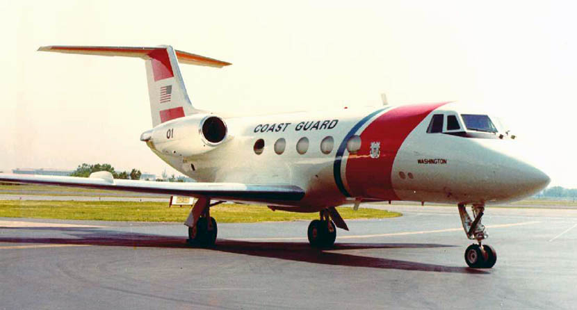 A U.S. Coast Guard Grumman VC-11A Gulfstream, in 1969.